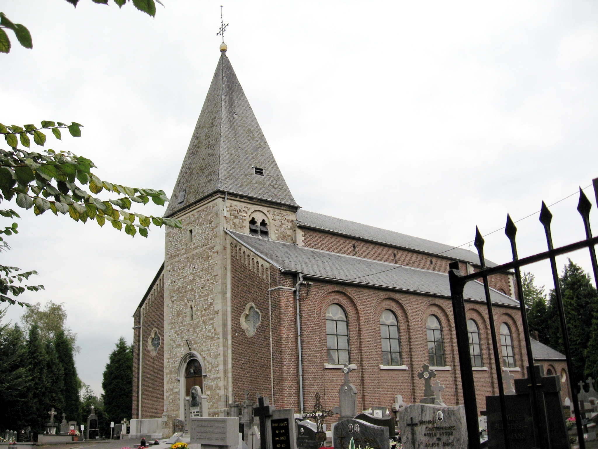 Church of Saint Hubertus in Henis, Tongeren, Limburg, Belgium